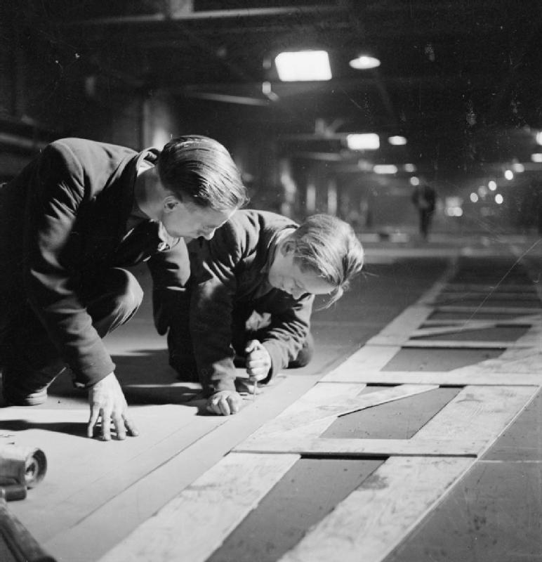 Cecil Beaton Photographs- Tyneside Shipyards, 1943 Two men cutting templates in the mould loft.